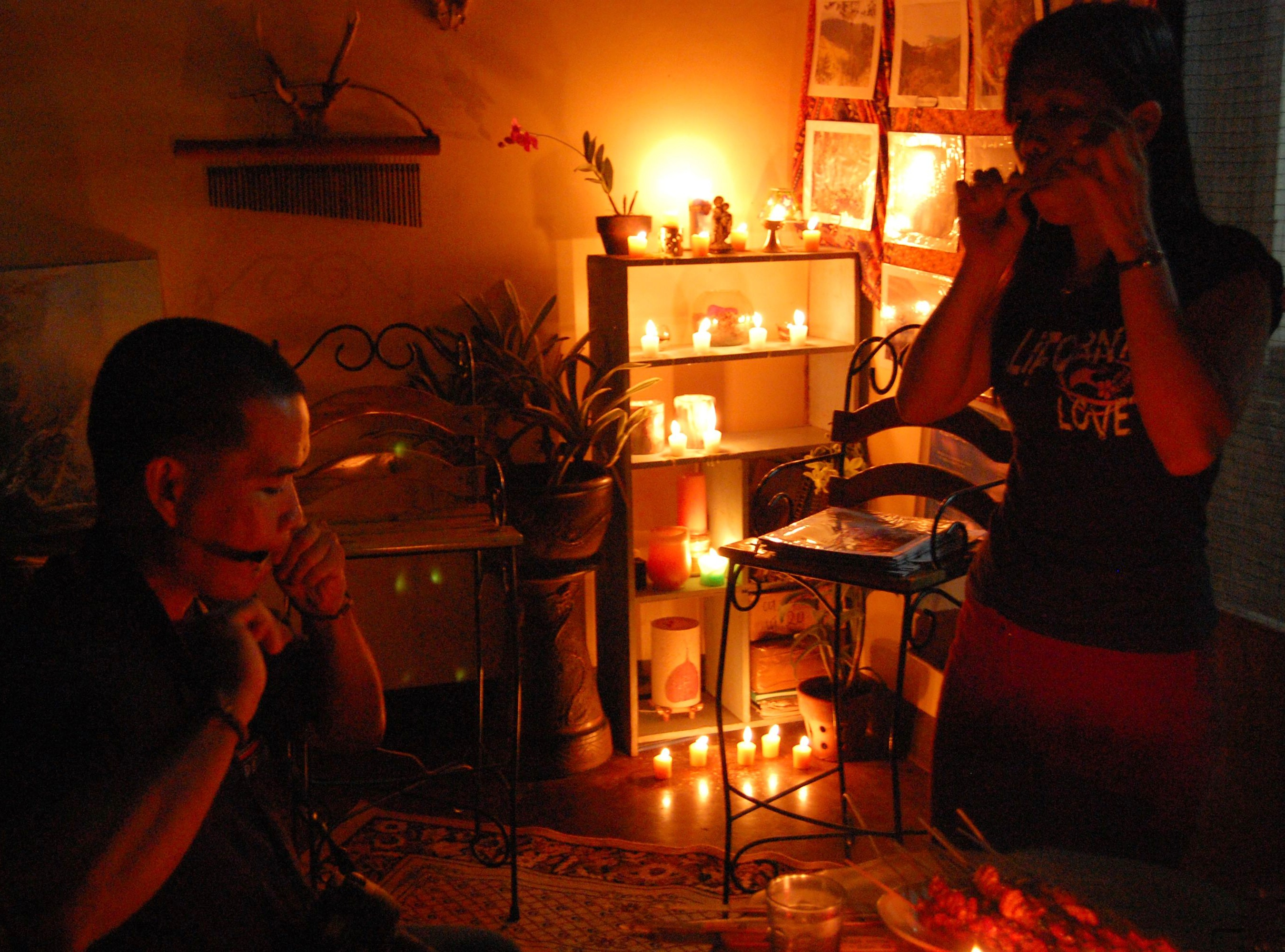 flickrista Jun Lisondra (left) and college instructor Vee Domingo (right) played the kubing for the opening salvo. Nikon D40 (Tribute to Wilfredo Pascual Jr., September 2007).